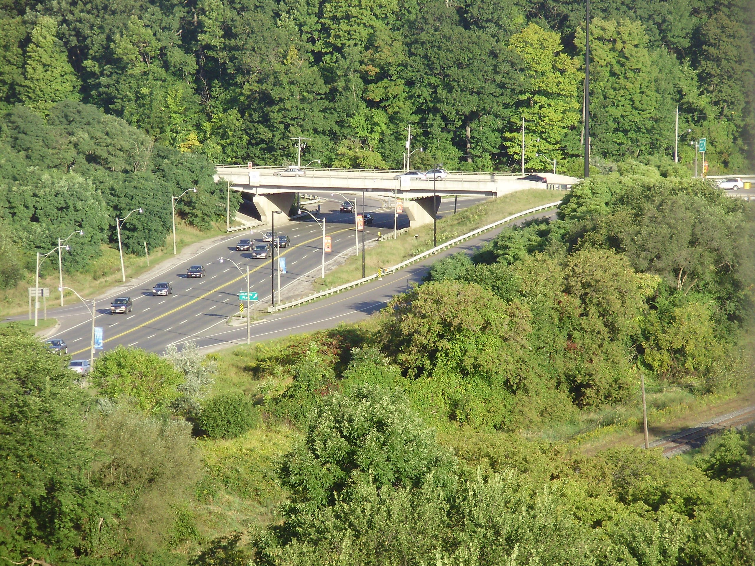 This interchange, connecting Bloor Street, the Don Valley Parkway, and the Bayview Avenue Extension in Toronto, Ontario, Canada, is the sole component of the proposed Crosstown Expressway that was ever built.